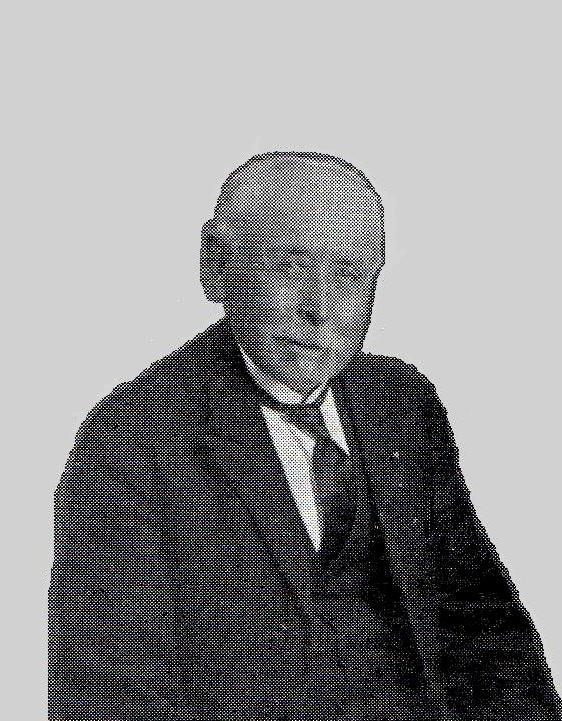 Picture of Toana Bertrand